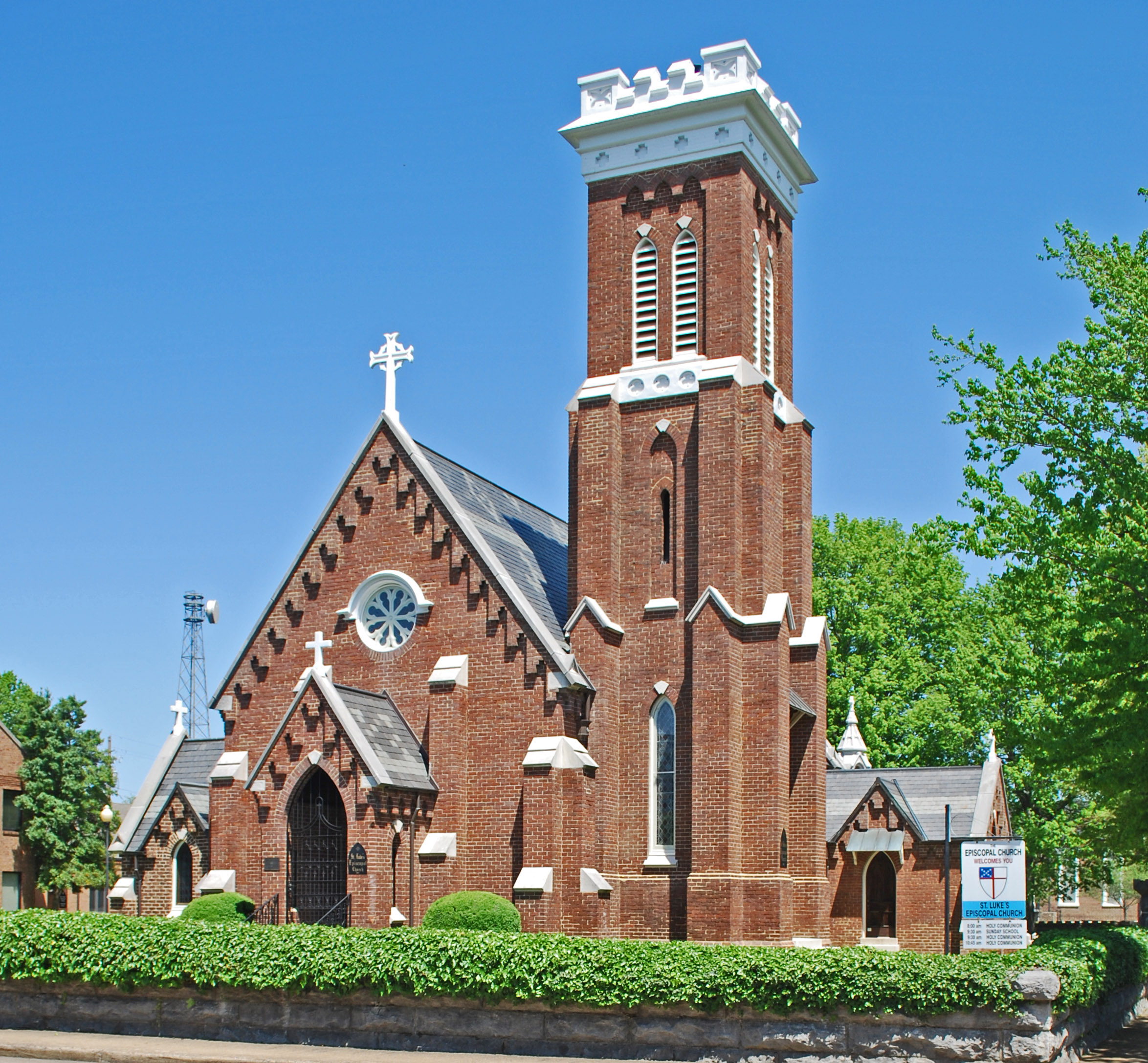 St Lukes Episcopal Church Cleveland TN